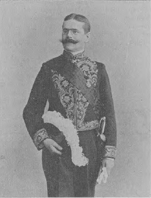 Parliamentarian from the Netherlands